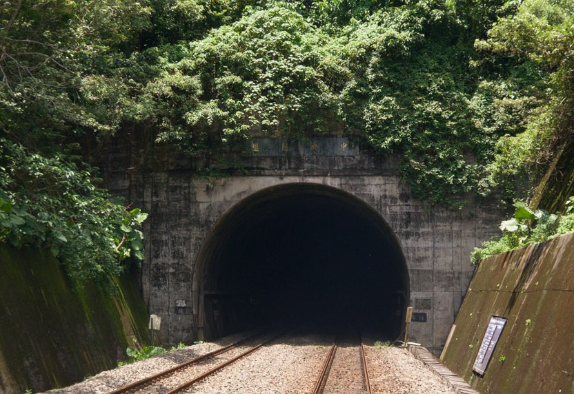 View along the tracks looking towards the eastern portal of the Central Tunnel. The tunnel is a railway tunnel through the Central Range in Shizi Pingtung and Daren Taitung, and carries the South-Link Line under the Chaliufan Mountain. It became operational when the railway line opened in 1992. With a maximum elevation of 175 metres and length of 8,070 metres, is the longest mountain tunnel and highest point along the South-Link Line.